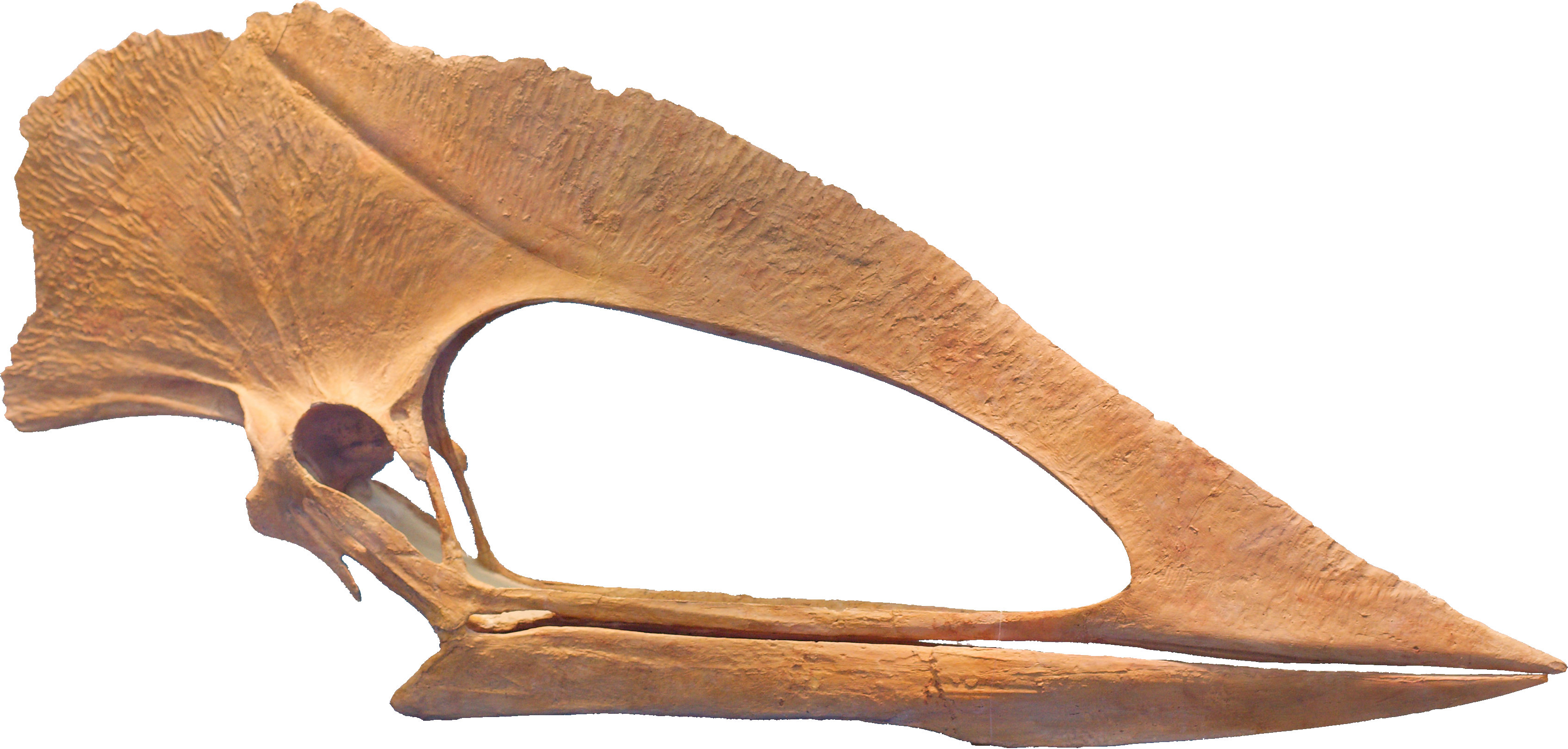 Skull of a Tupuxuara longicristatus